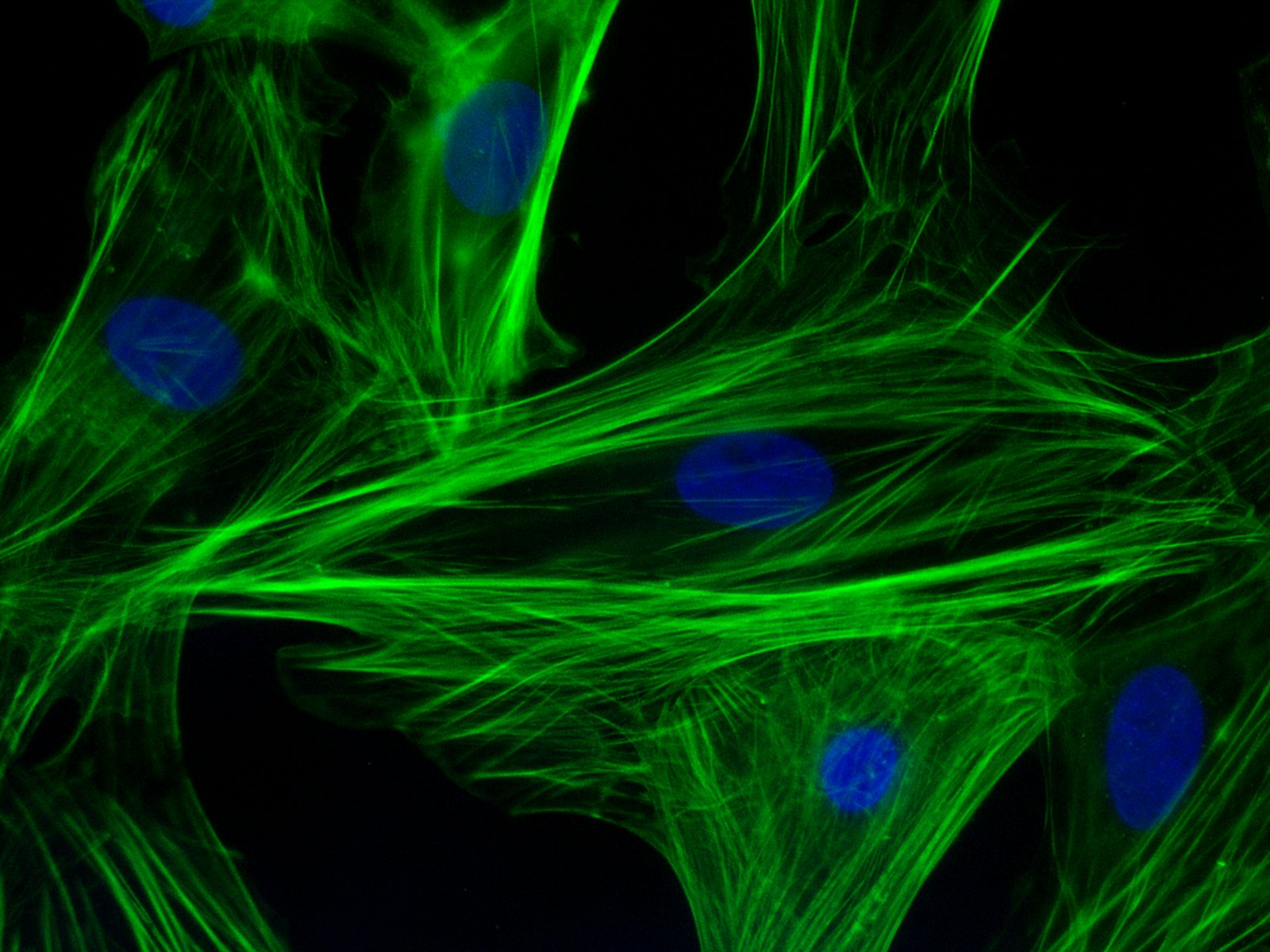 The picture presents immunofluorescent staining for F-actin filaments (green) and nuclei (blue) in neonatal cardiomyocytes.